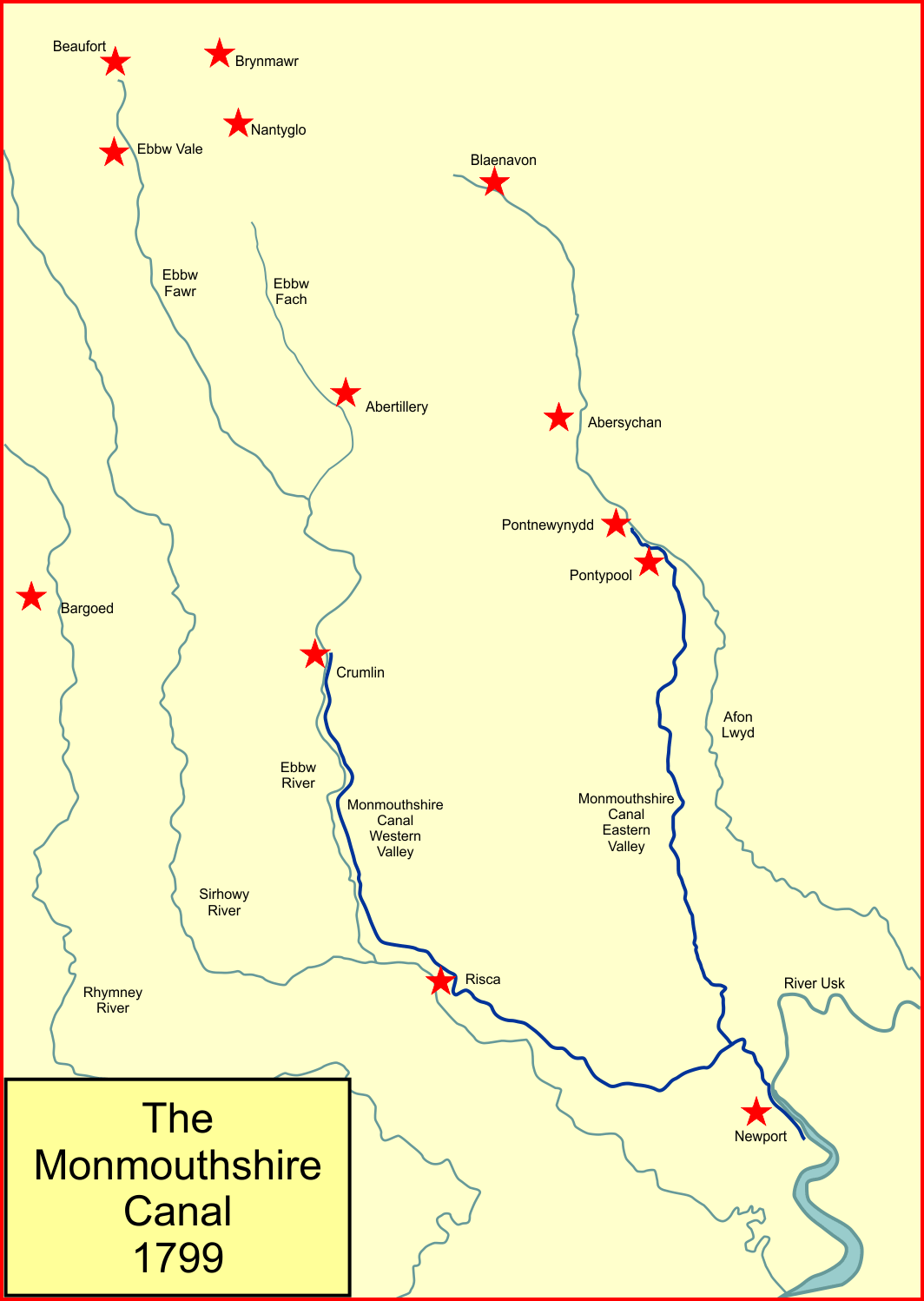 System map of the Monmouthshire Canal, Wales, in 1799